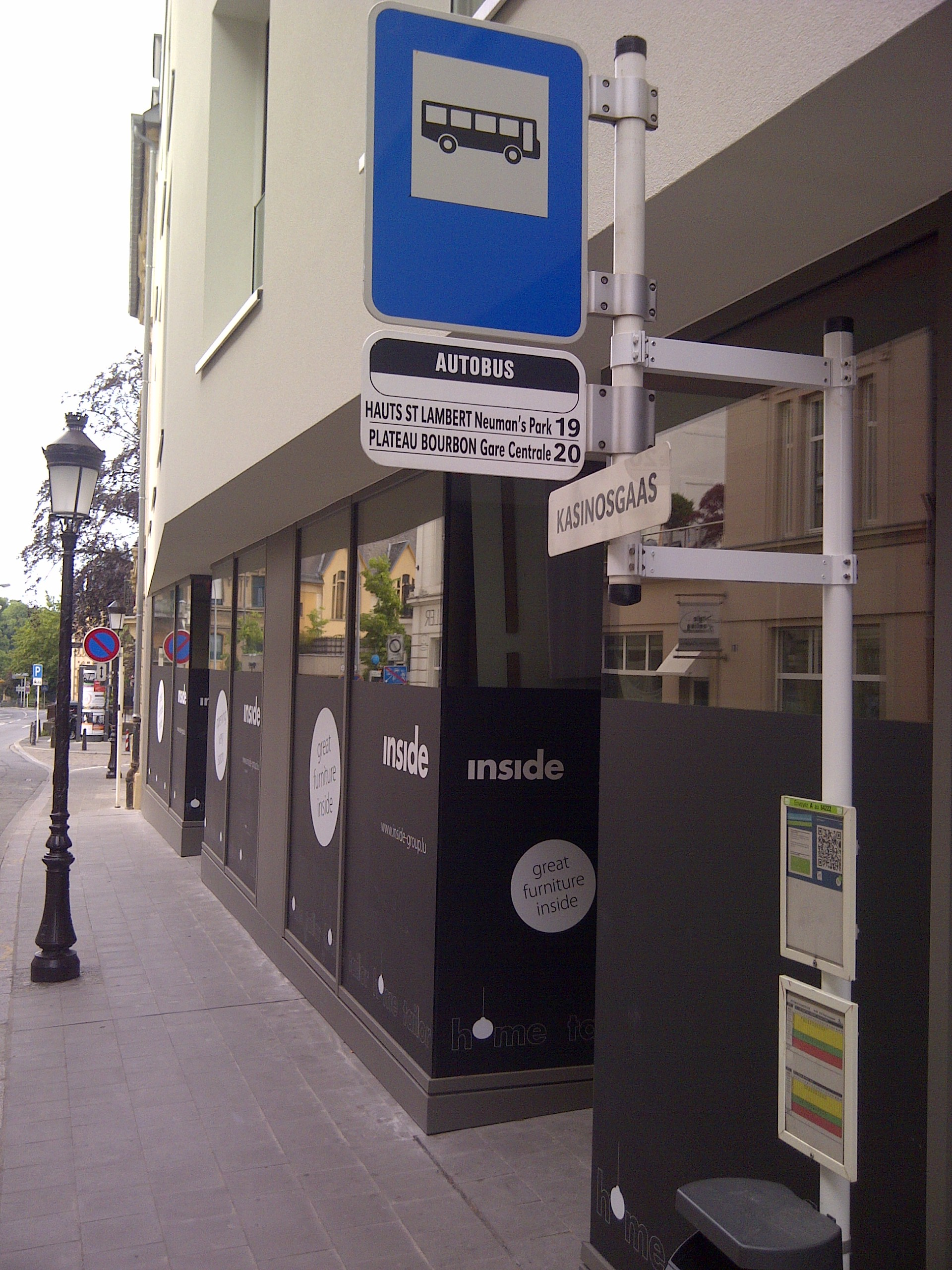 Bus stop sign for routes 19 and 20 at bus stop "Kasinosgaass" in Luxembourg City.